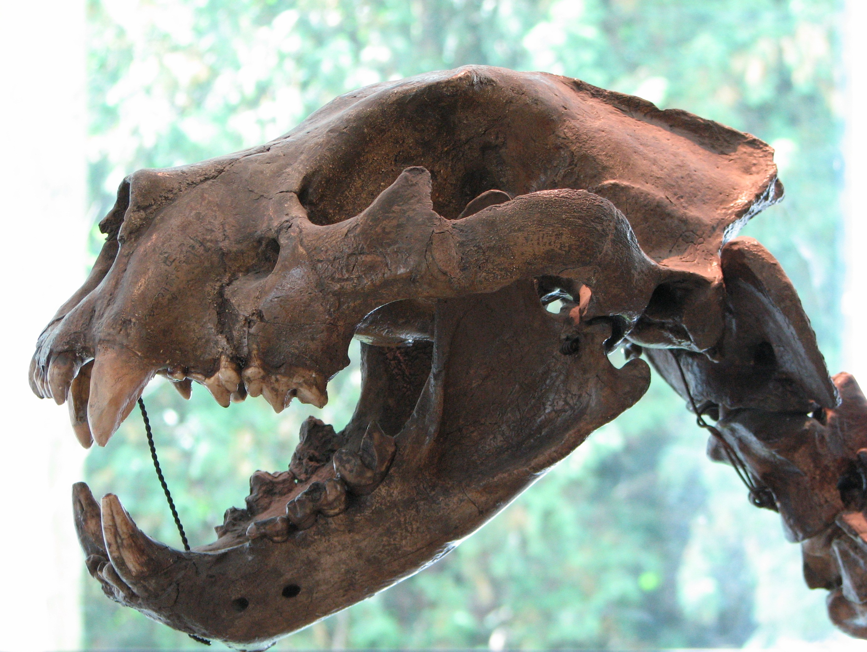 Fossil skull of a cave lion, in the Brno museum Anthropos